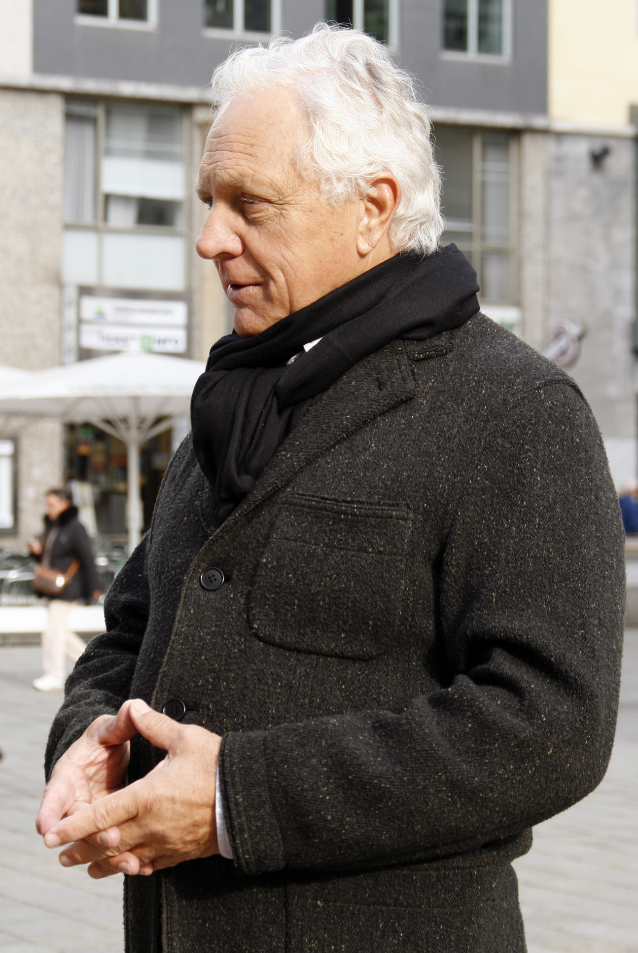 Austrian politician Fritz Dinkhauser during the campaign for the Austrian legislative election 2008.